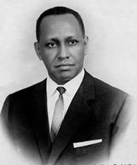 Abdullahi Issa Mohamud, Prime minister of Trust Territory of Somaliland (1956-1960, Italian jurisdiction)